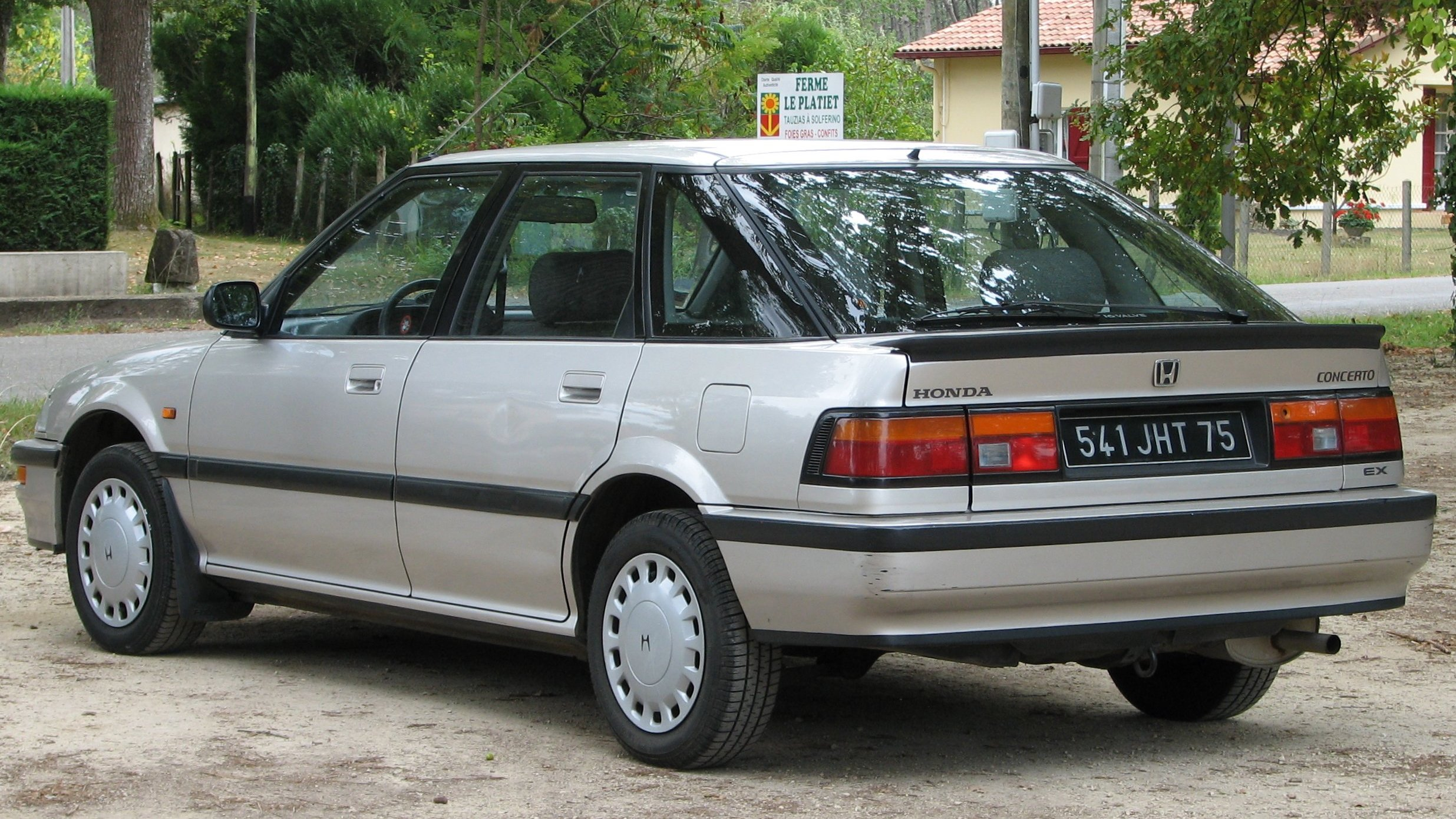 1991 Honda Concerto EX not as "good looking" as its sister car the Rover 200 - this one is in pretty good condition except from the scratch on the bumper - not bad for a car registered in Paris...